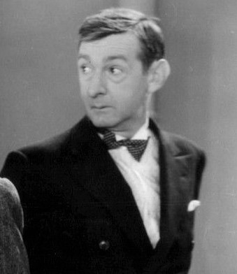 Slim Summerville in a scene from the film Little Accident (1930).